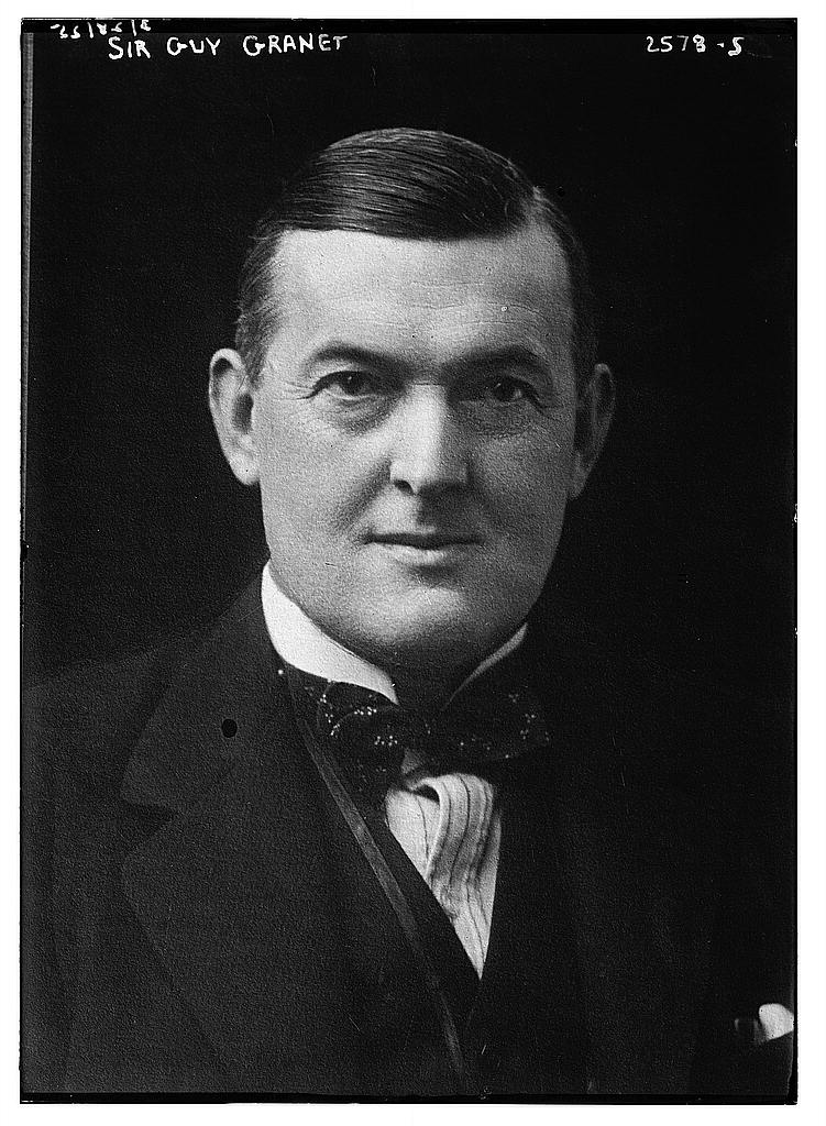 Guy Granet Source Bain News Service, circa 1910-1915. George Grantham Bain Collection (Library of Congress). LOC call number: LC-B2- 2578-5[P&P]